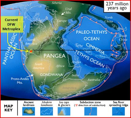 Where the DFW metroplex was located during the last super continent known as Pangea